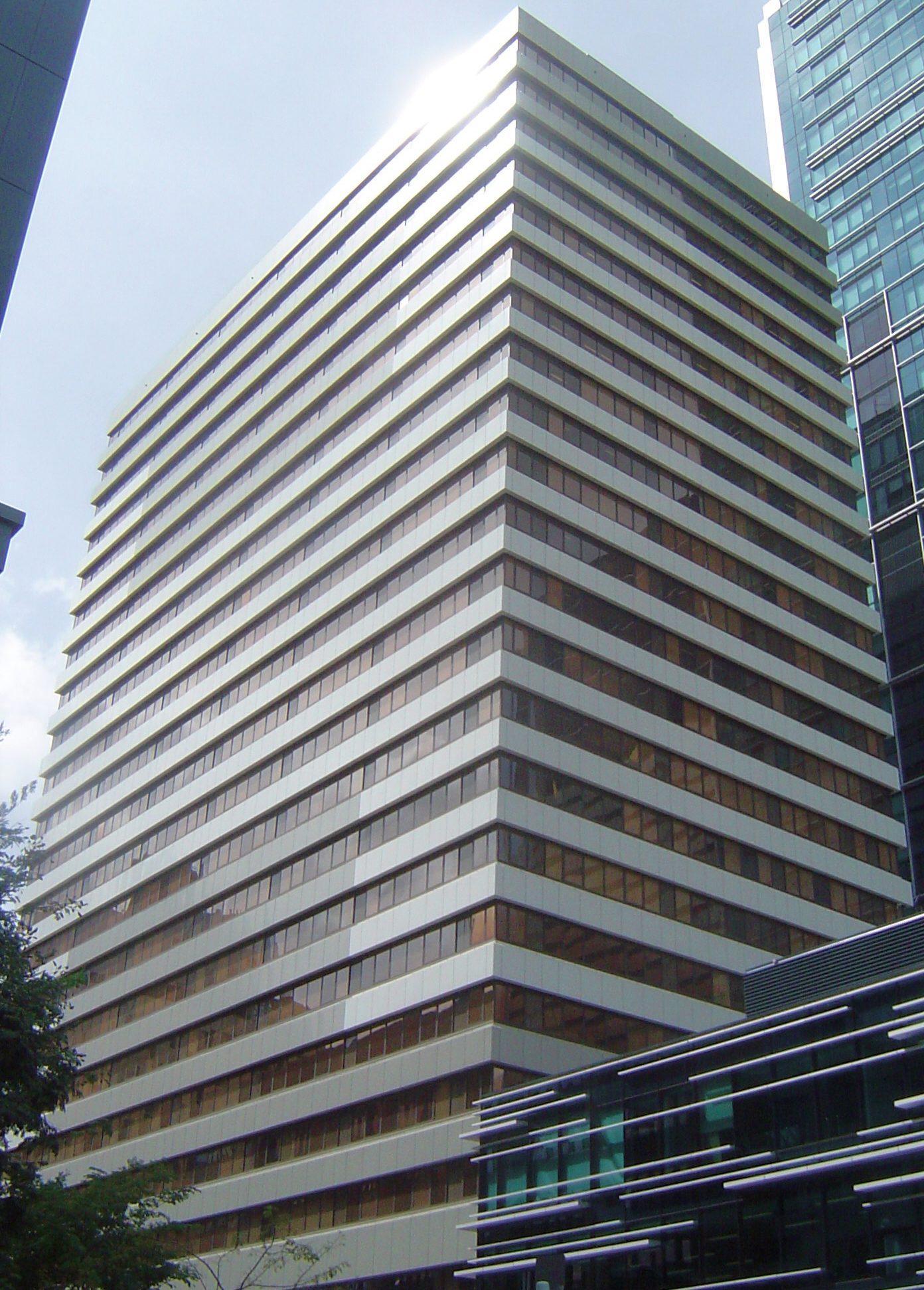 Photo of Brisbane Administration Centre office building, also known as Northbank Plaza in Ann Street, Brisbane, Queensland, Australia